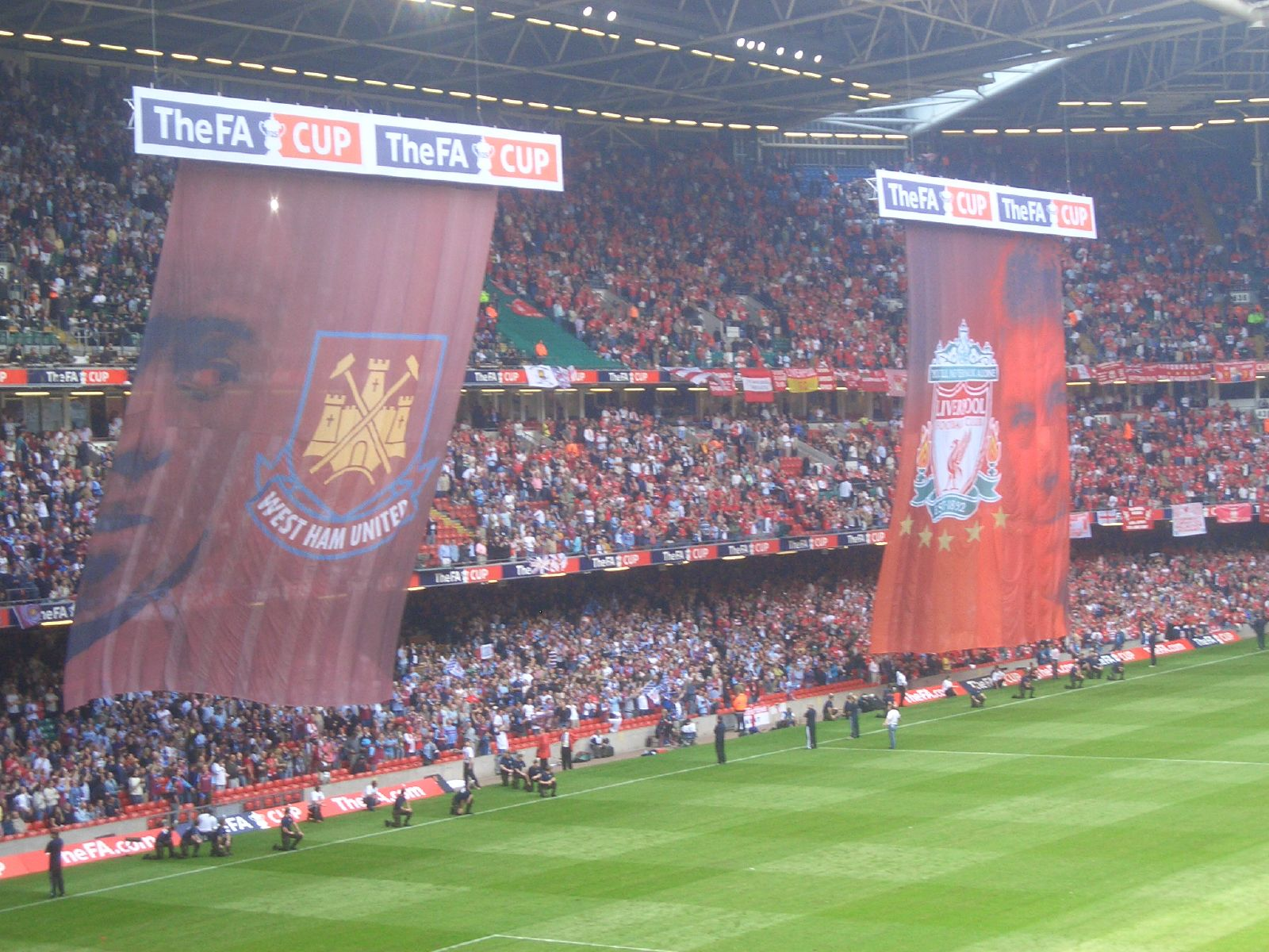 West Ham Utd Vs Liverpool FC 2006 FA Cup Final, Millennium Stadium, Cardiff, Wales